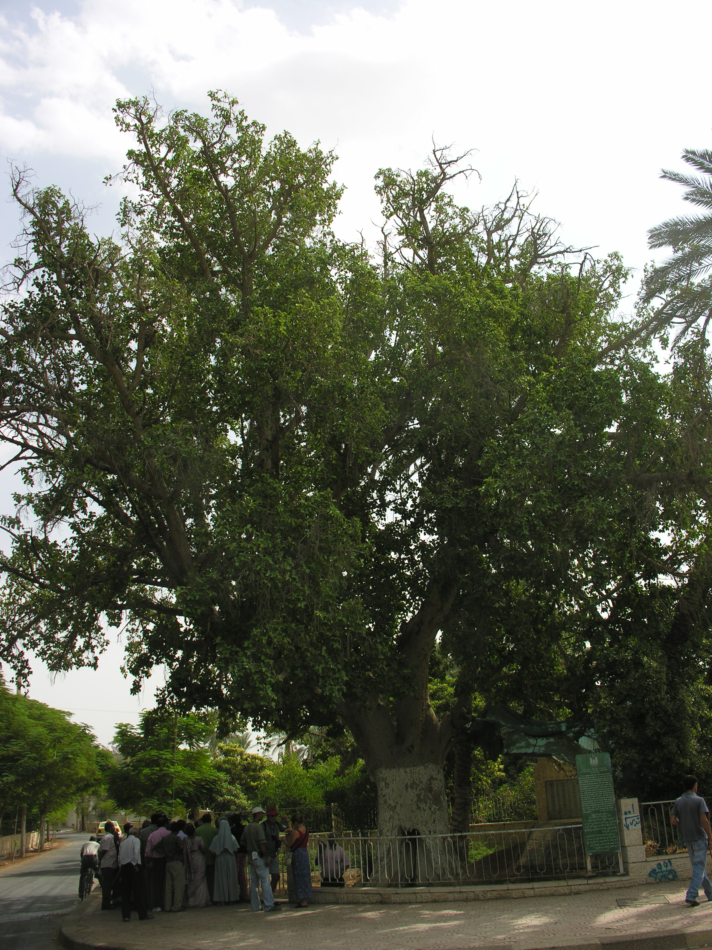 Zachaeus΄s sycamore fig in Jericho